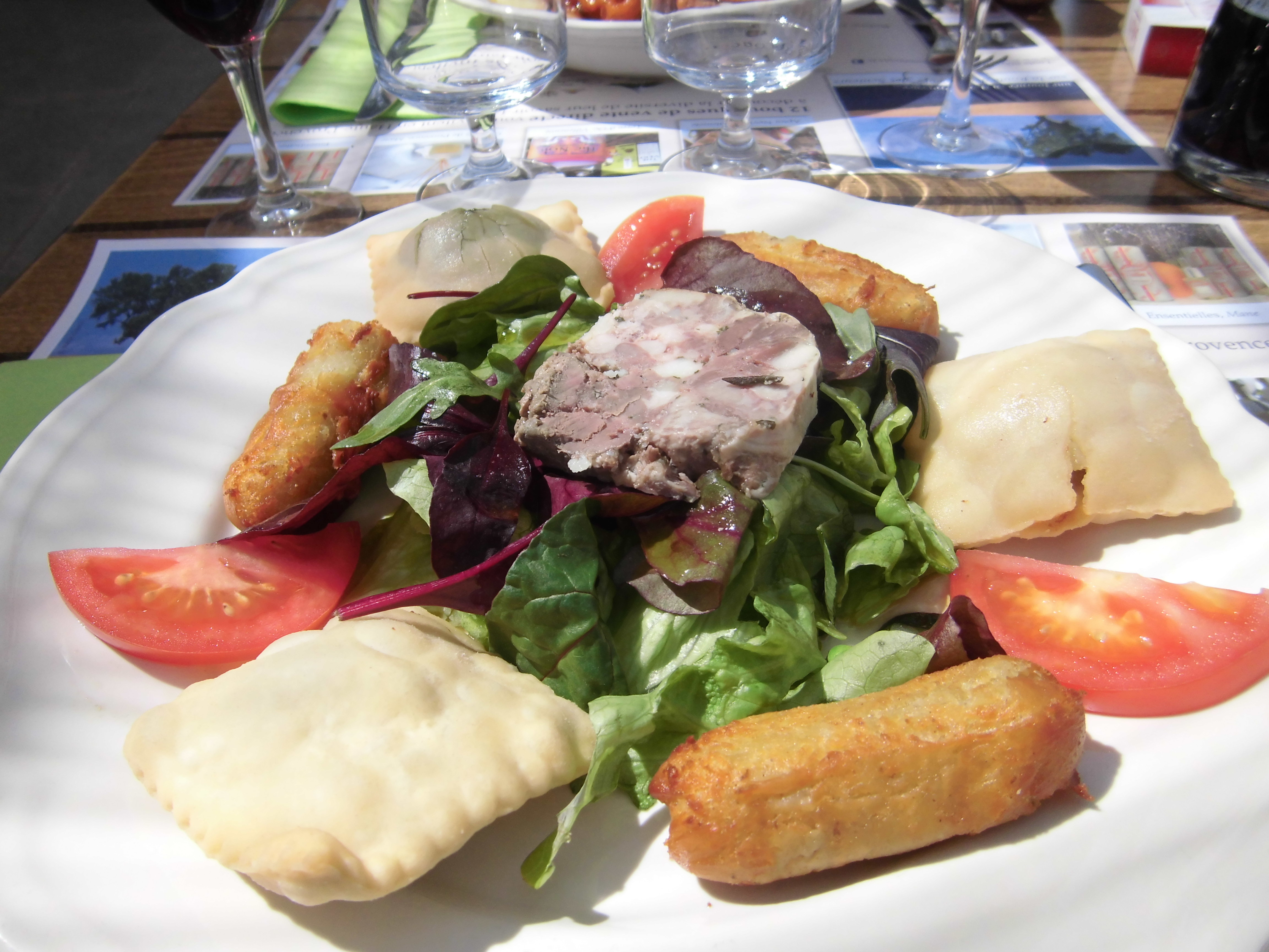 Tourtons and raviolis du Champsur, specialities of Alpes-de-Haute-Provence, France